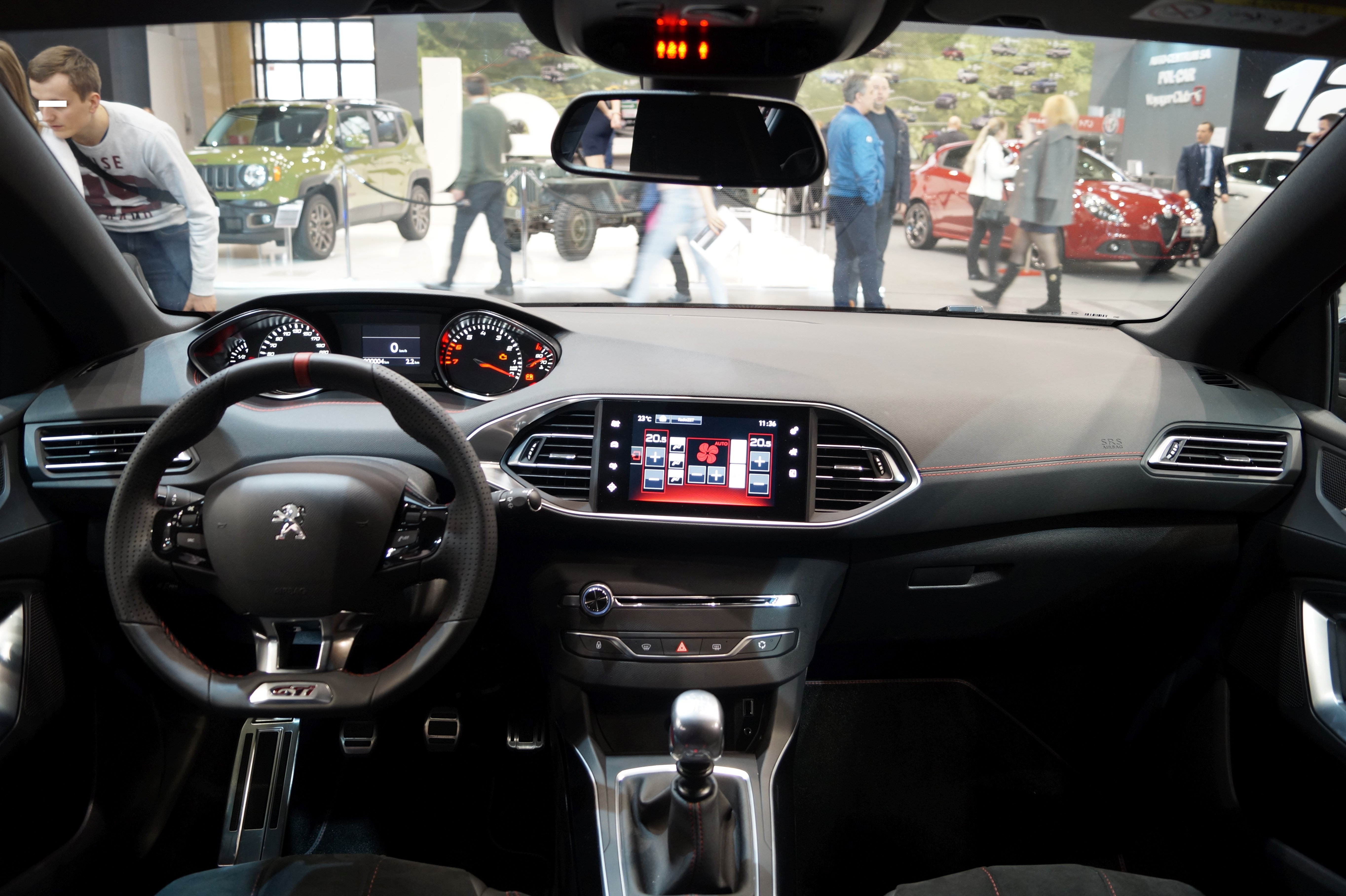 The making of this document was supported by Wikimedia Polska Association, within Wikigrant no. WG 2016-10. Wnętrze Peugeota 308 GTi na Motor Show Poznań 2016